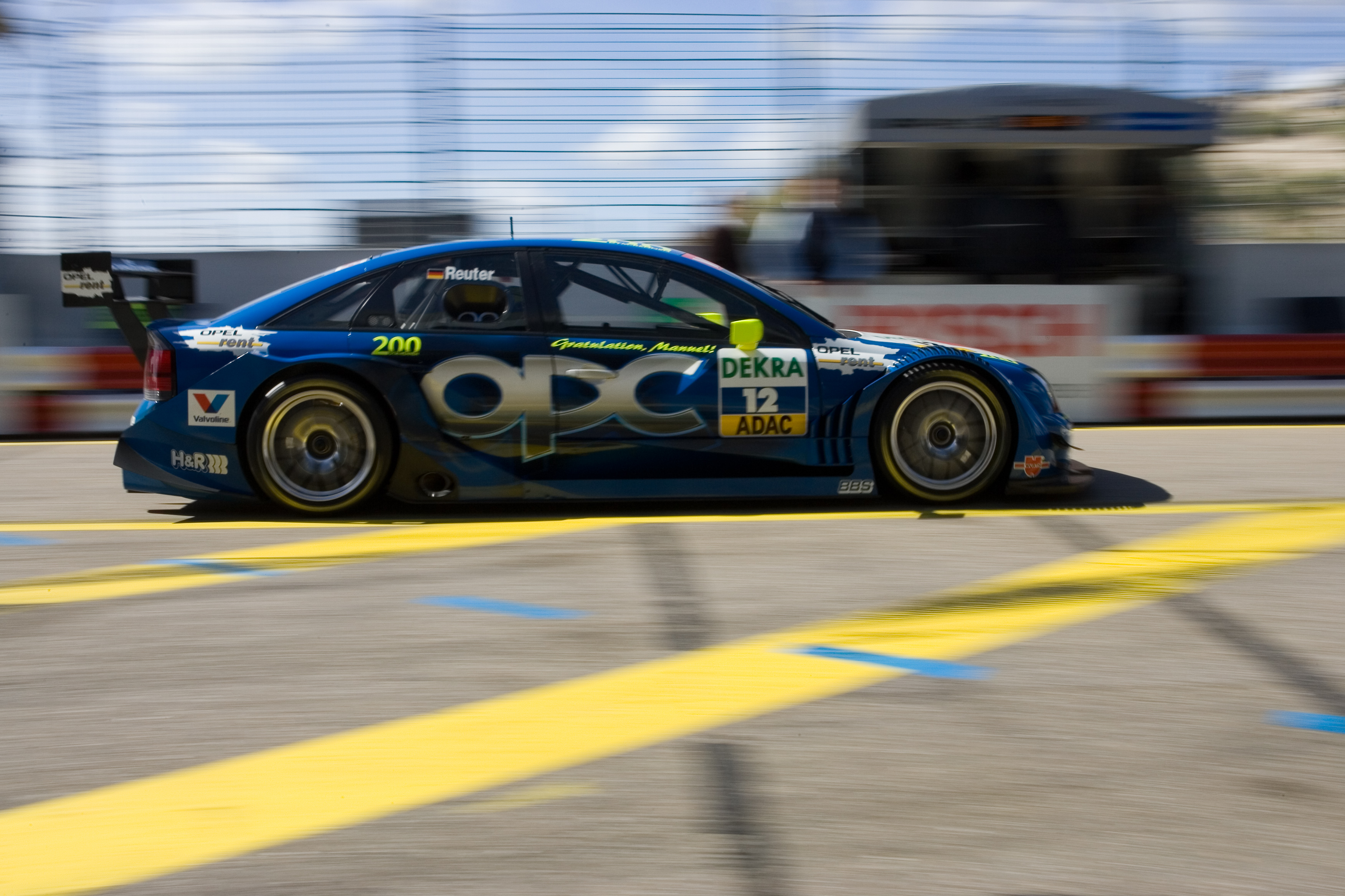 2005 DTM Zandvoort, the Netherlands.